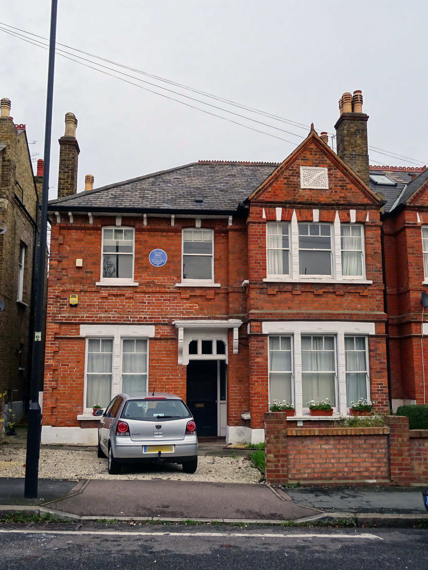 ARTHUR MEE 1875-1943 Journalist author and topographer lived here - 27 Lanercost Road Tulse Hill London SW2 4DP